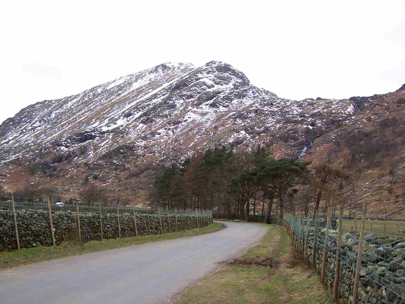 Personal photograph taken on 21st March 2006 by Mick Knapton